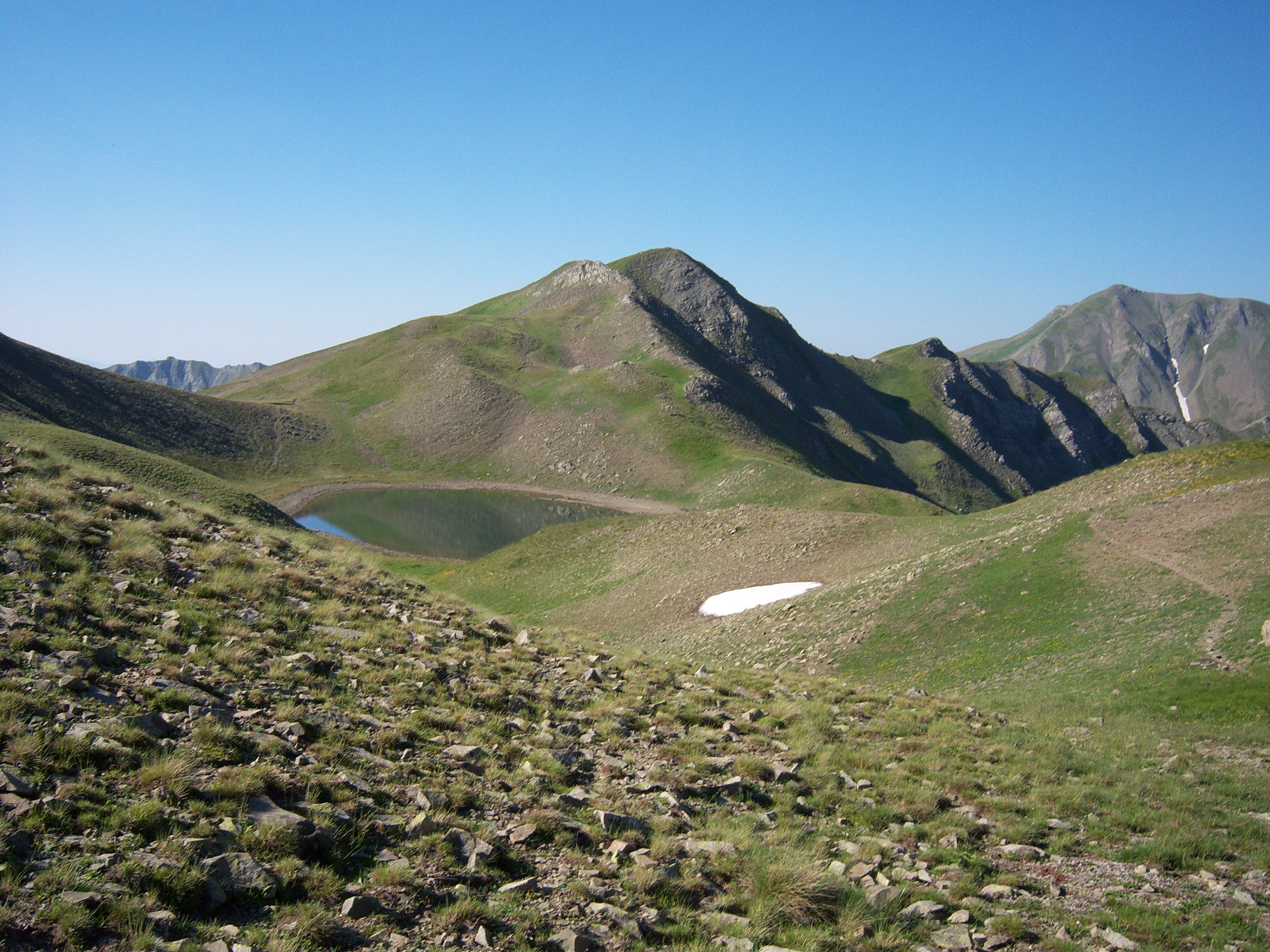 This is a photography of Natura 2000 protected area with ID GR1320002